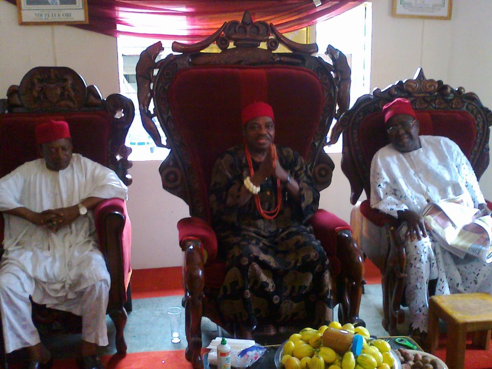 H.R.H Igwe Mich Okechukwu,Eze di Ora Mma 2nd is the Ruling King of Awgbu after so many years of searching.He succeeded late H.R.H Igwe Micheal Ezeayom,Eze di Ora Mma 1st who joined his ancestors in the year 1989